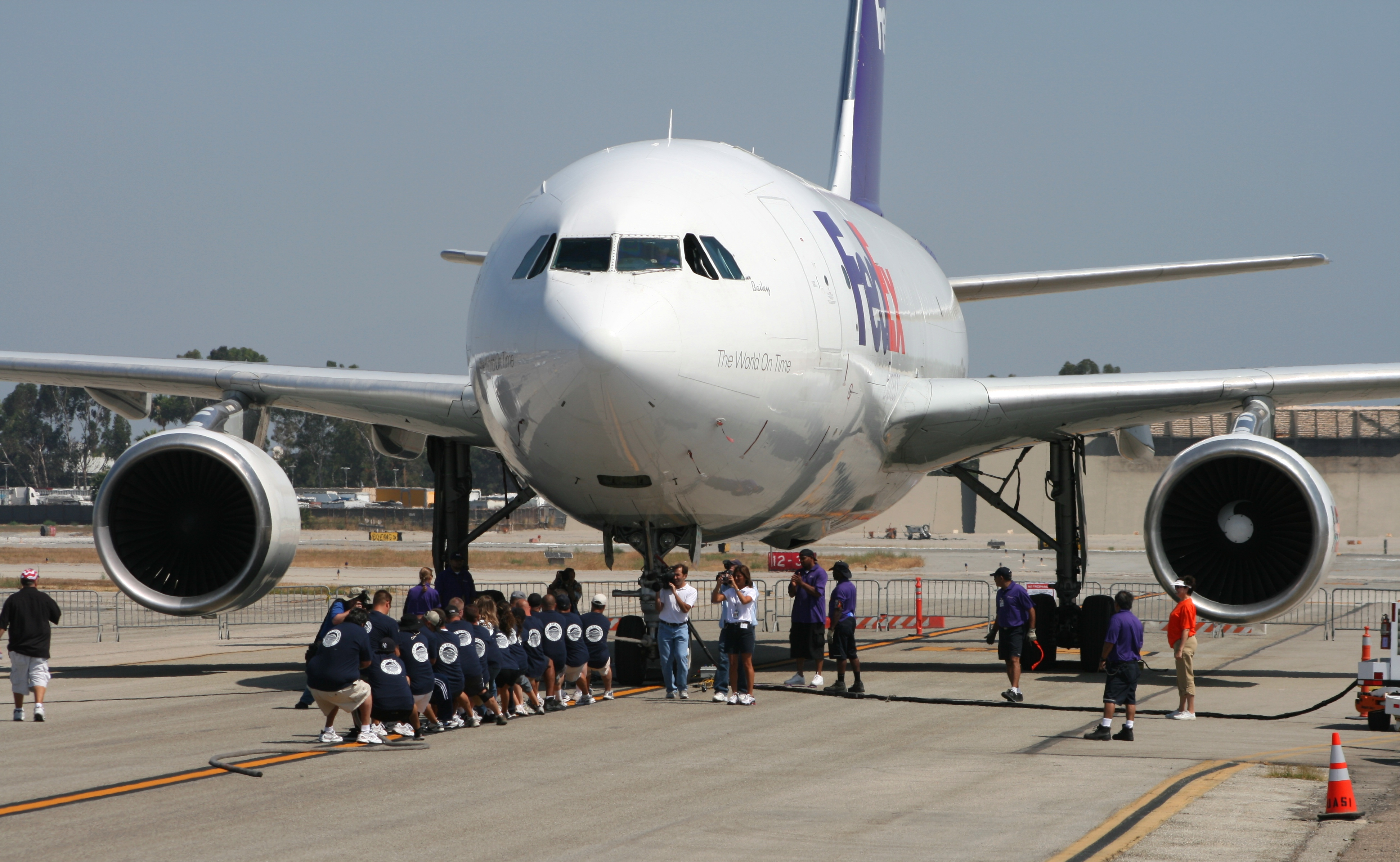 Charity event for Special Olympics